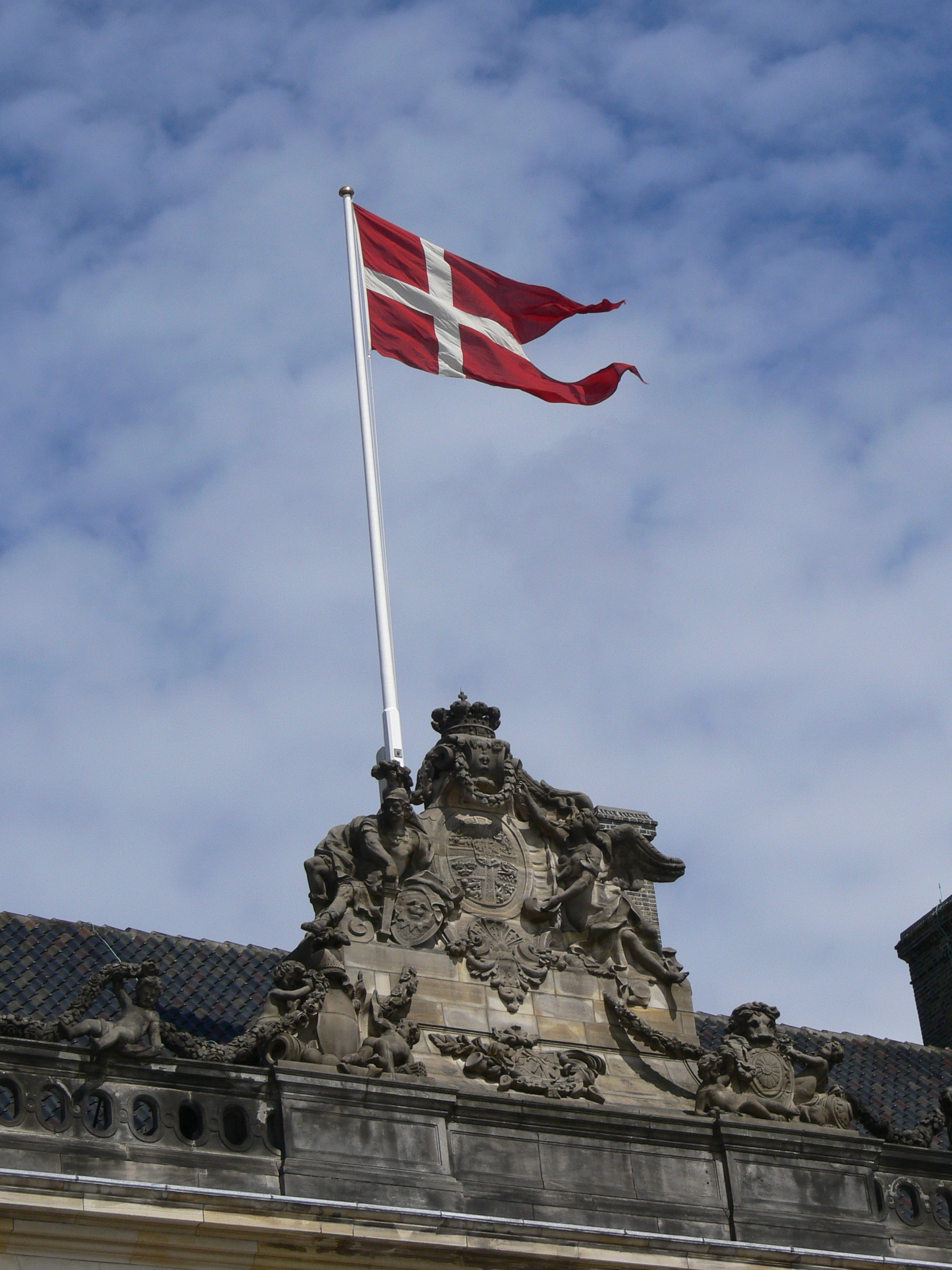 Amalienborg Palace ( Copenhagen ). Danish flag on top of one palace building.